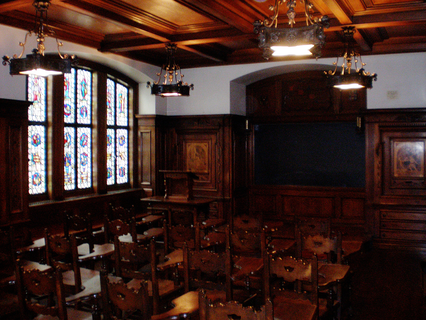 German Nationality Room in the Cathedral of Learning at the University of Pittsburgh